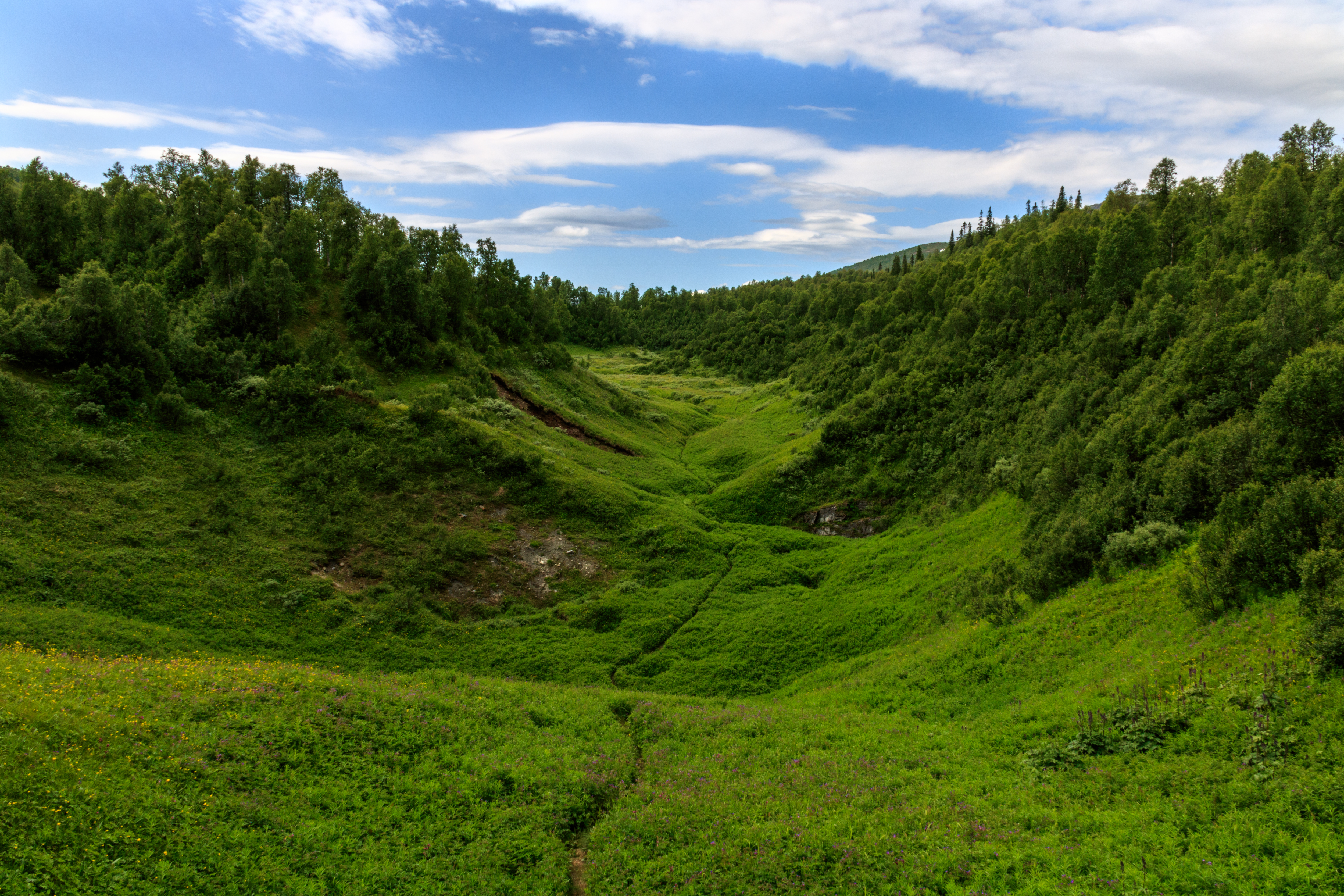 Blind valley in Bjurälvens nature reserve